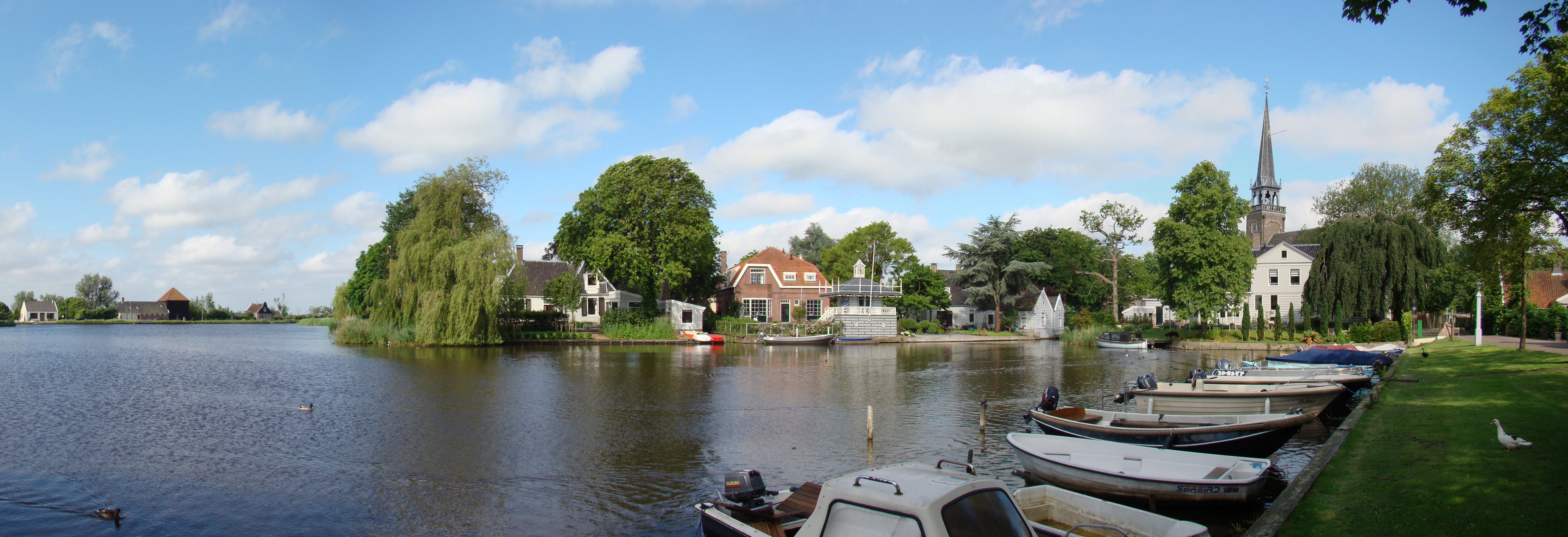 Impressions of Broek in Waterland, Netherlands View on Broek in Waterland